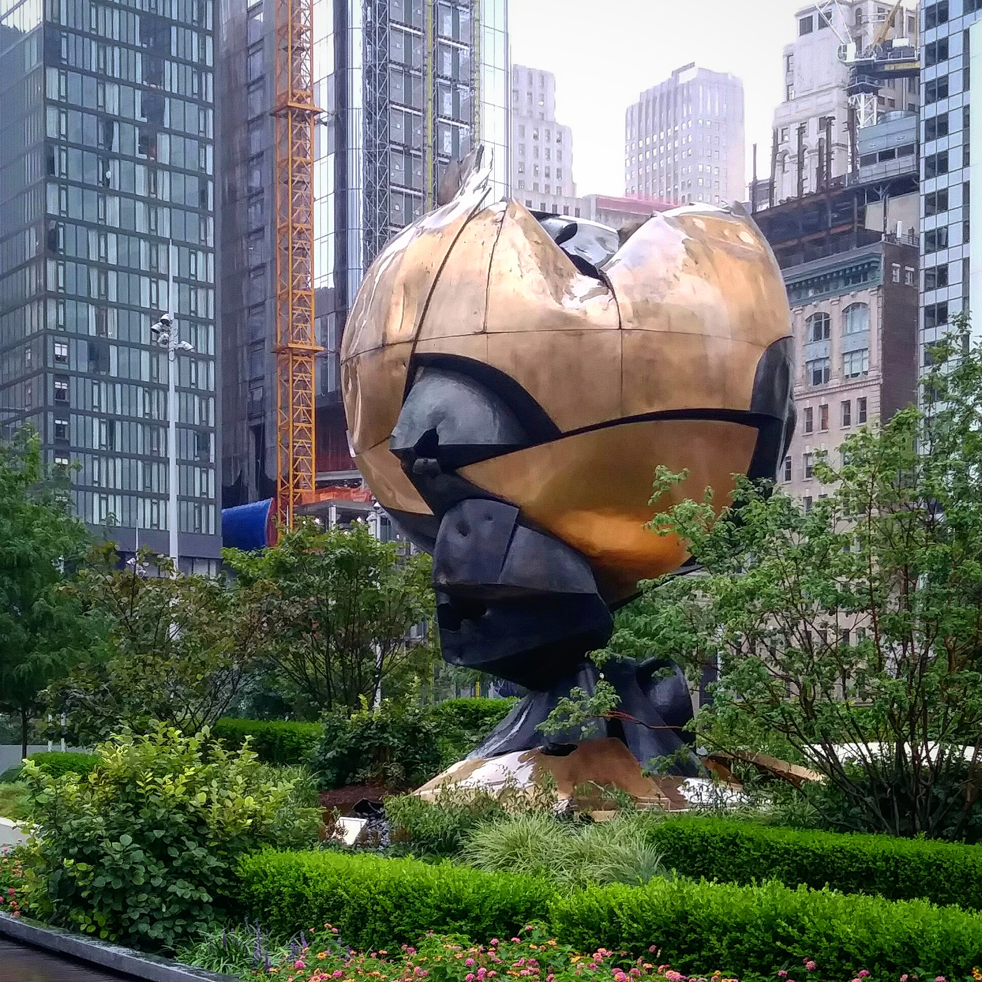 The sphere that survived